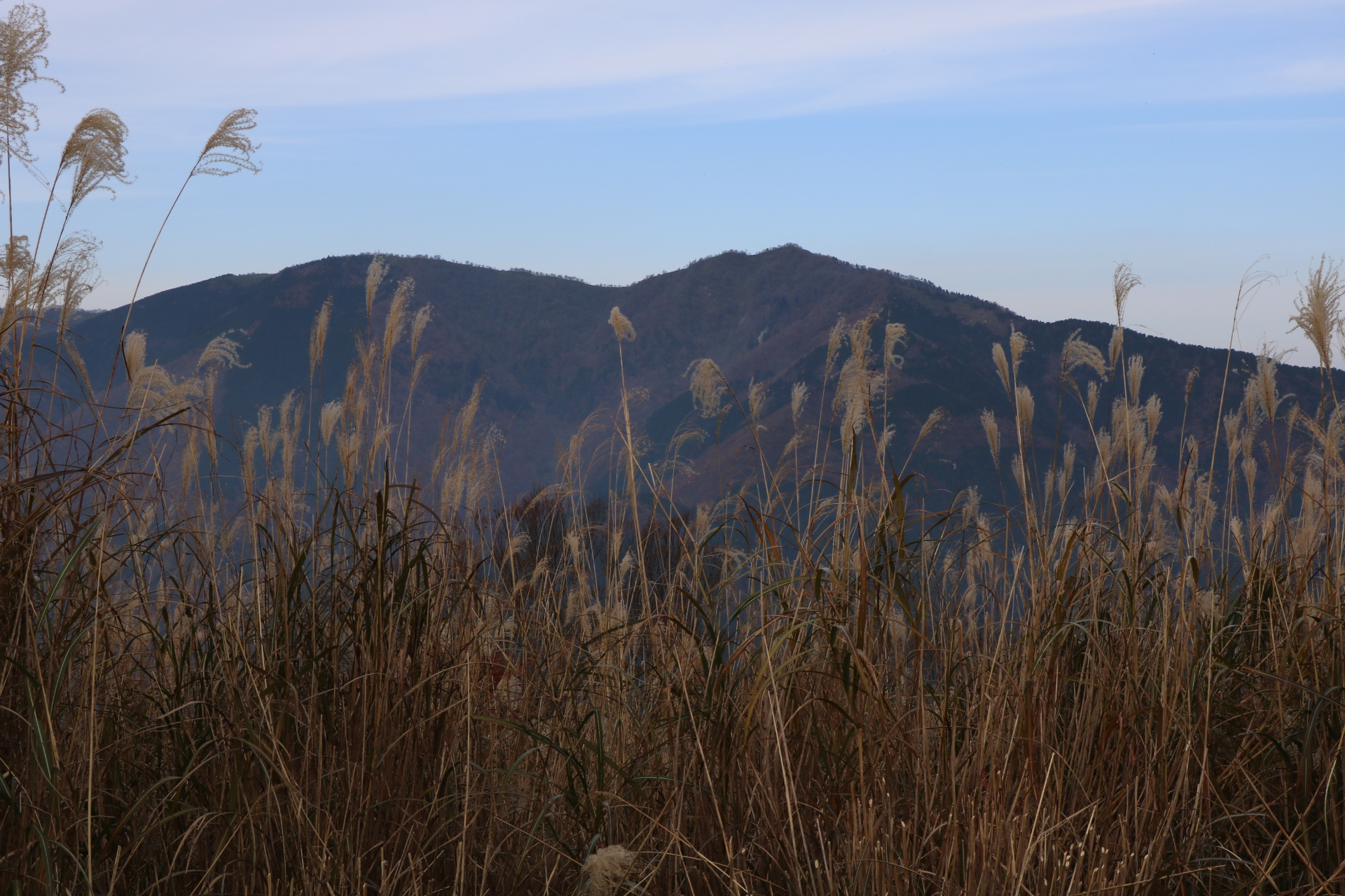 Ushiroyama seen from the south. Taken from Hinakurayama.